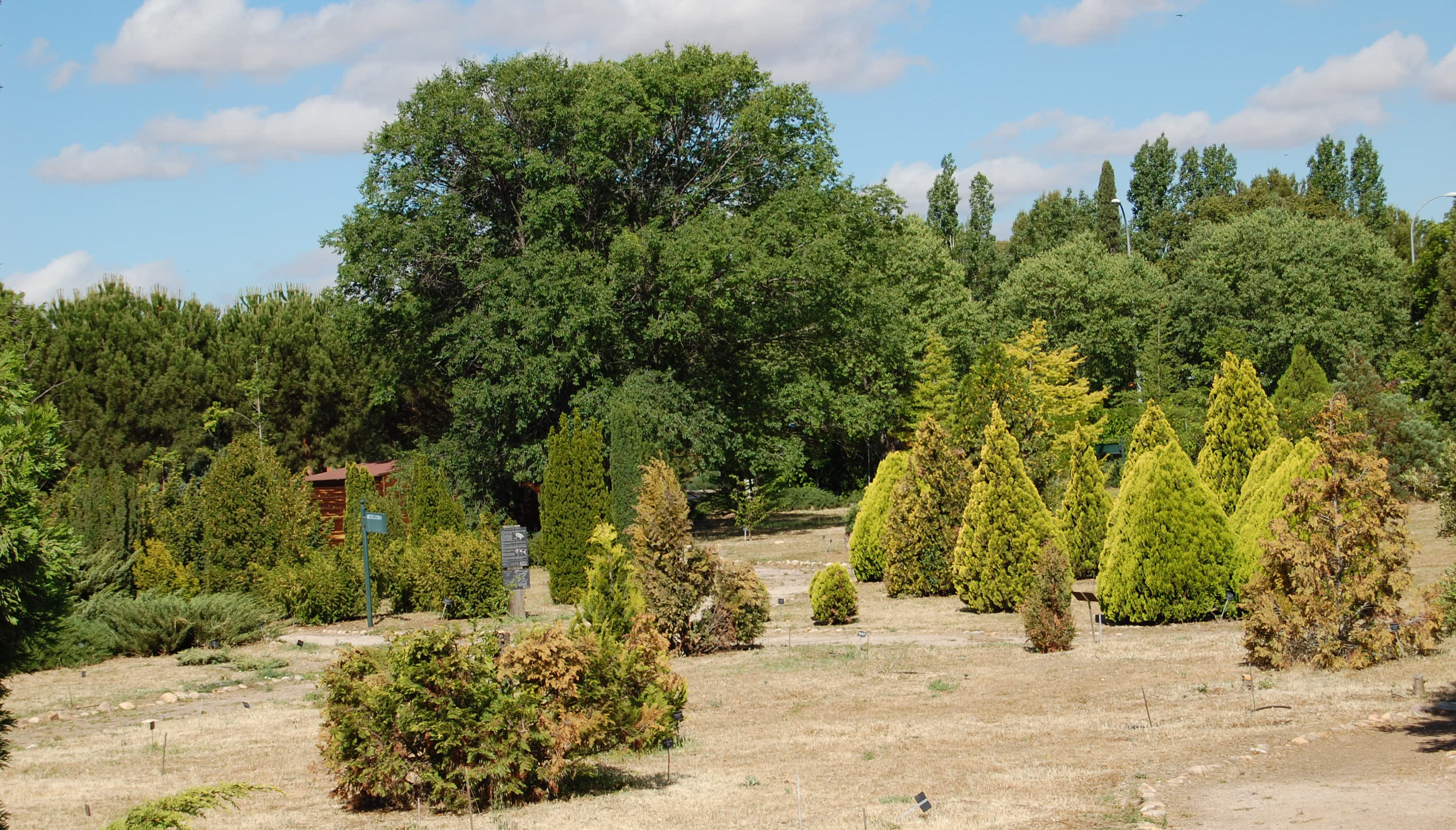 Royal Botanic Gardens, Juan Carlos I, located on the campus of Alcalá de Henares (University of Alcalá). Founded in 1990. Iberian arboretum.